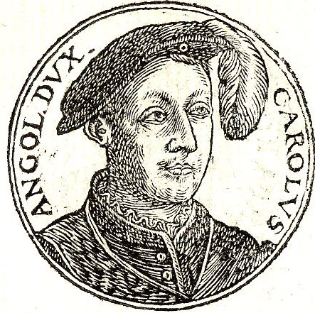 Charles d'Angouleme was the 3rd son of King Francis I of France and Claude de France, daughter of Louis XII of France.